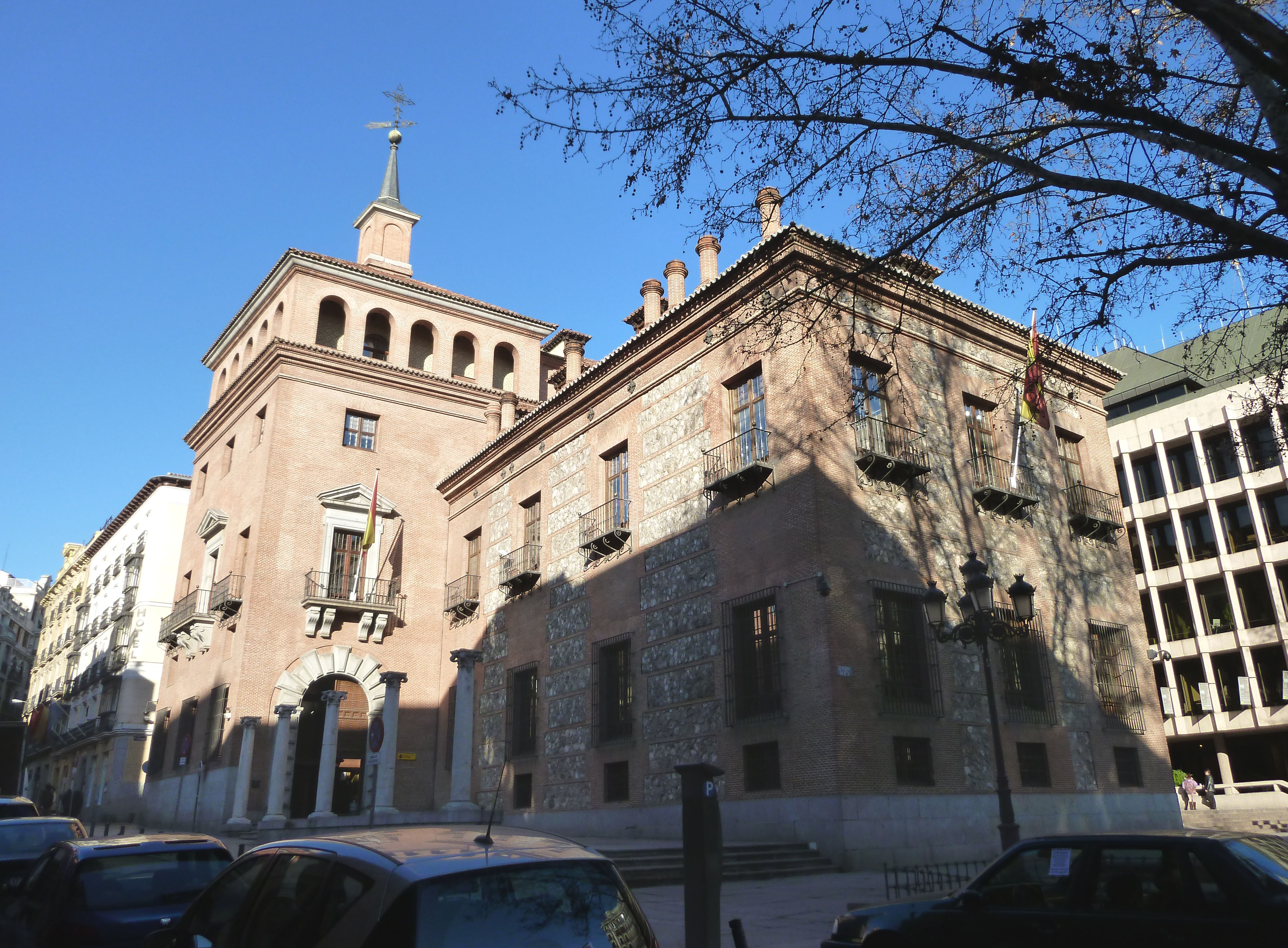 View of Casa de las Siete Chimeneas (literally "House of the Seven Chimneys") in Madrid (Spain) from the south-east angle.